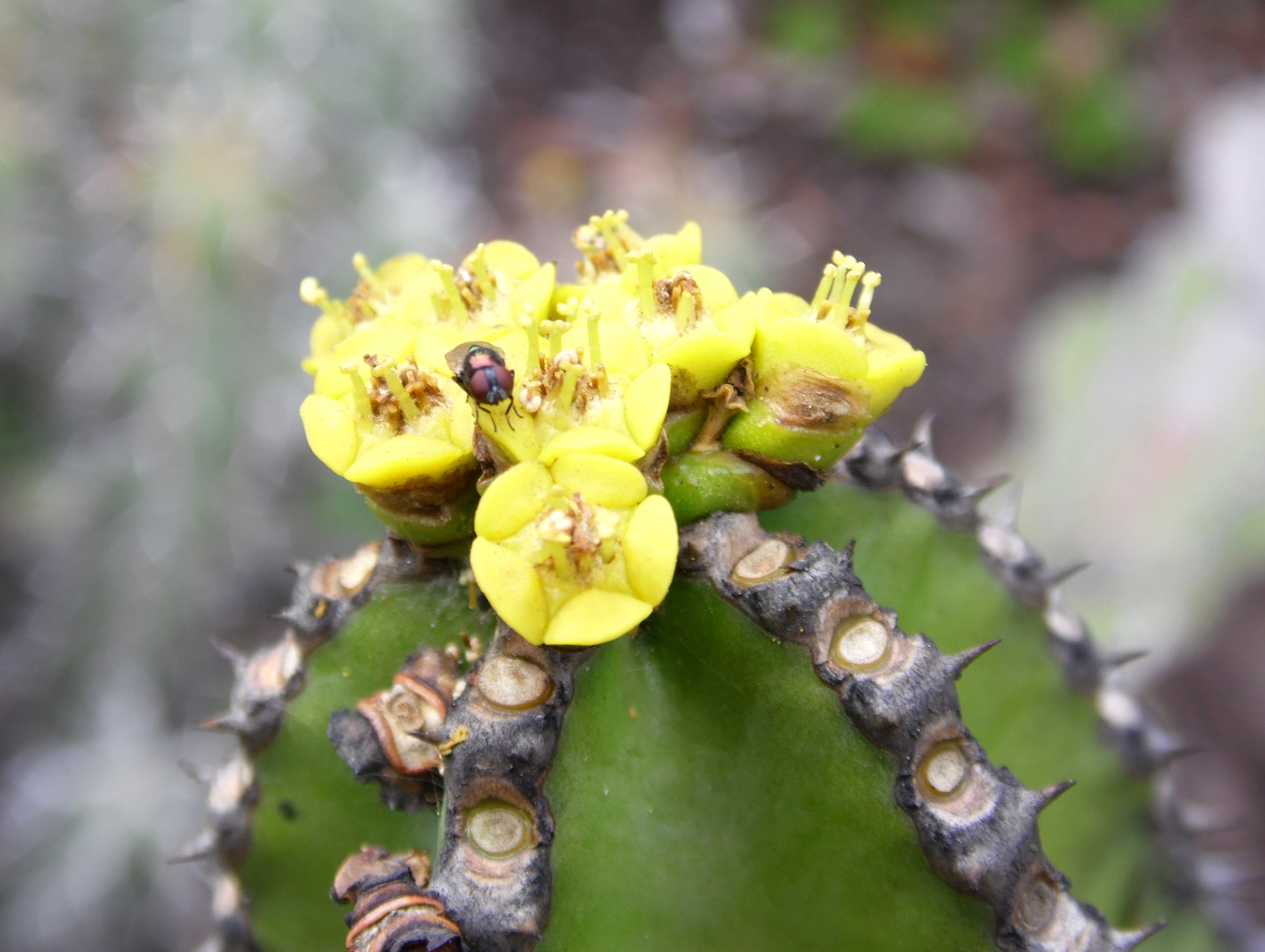 Euphorbia cooperi in Jardín Botánico Canario Viera y Clavijo